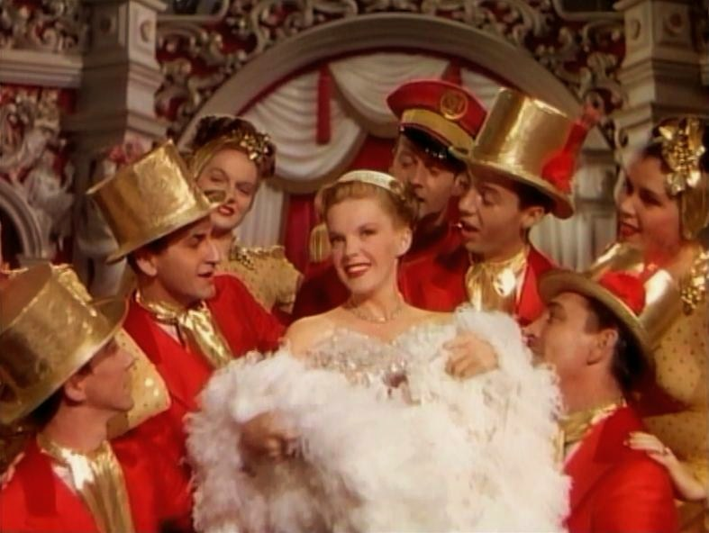 Judy Garland in Till the Clouds Roll By - cropped screenshot